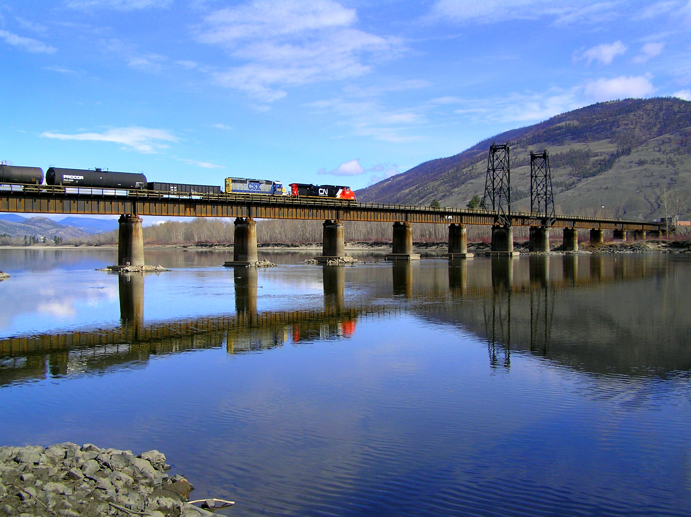 The CN Railway crossing the North Thompson River near Kamloops, British Columbia. Taken on 27 March 2005.